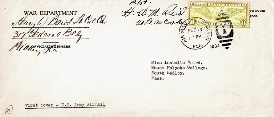 Cover flown from Miami, FL, to Boston, MA, on the first day of the "Emergency Army Air Mail" service, February 19, 1934. This cover is signed by Army pilot 2nd Lt. William M. Reid. Less than a month after flying this cover Lt. Reid was involved in a fatal crash of a B-6A Keystone bomber flying the mail north from Miami which crash landed in a thickly wooded area two miles south of the airport at Daytona Beach, FL. Although Reid was not seriously injured one of his two crew members was killed. During WWII, Col. Reid commanded the 92nd Bombardment Group at Alconbury in East Anglia, England. Among his awards were two Silver Stars for gallantry in action flying B-17 bombers in the European theater. Source: The Cooper Collection of Aero Postal History Licensing Image Licensing Stamp Licensing